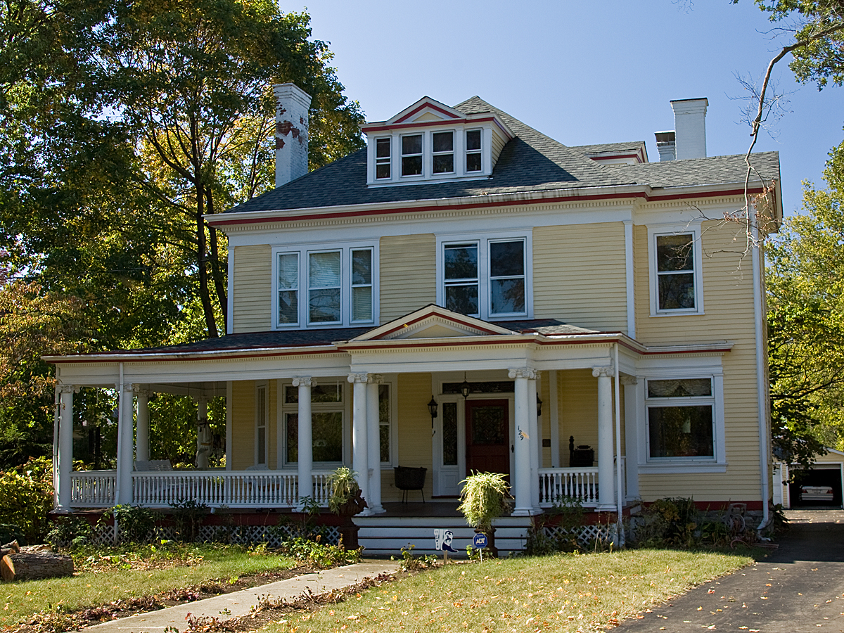 W. C. Retszch House in Wyoming, OH. Photo by Greg Hume.